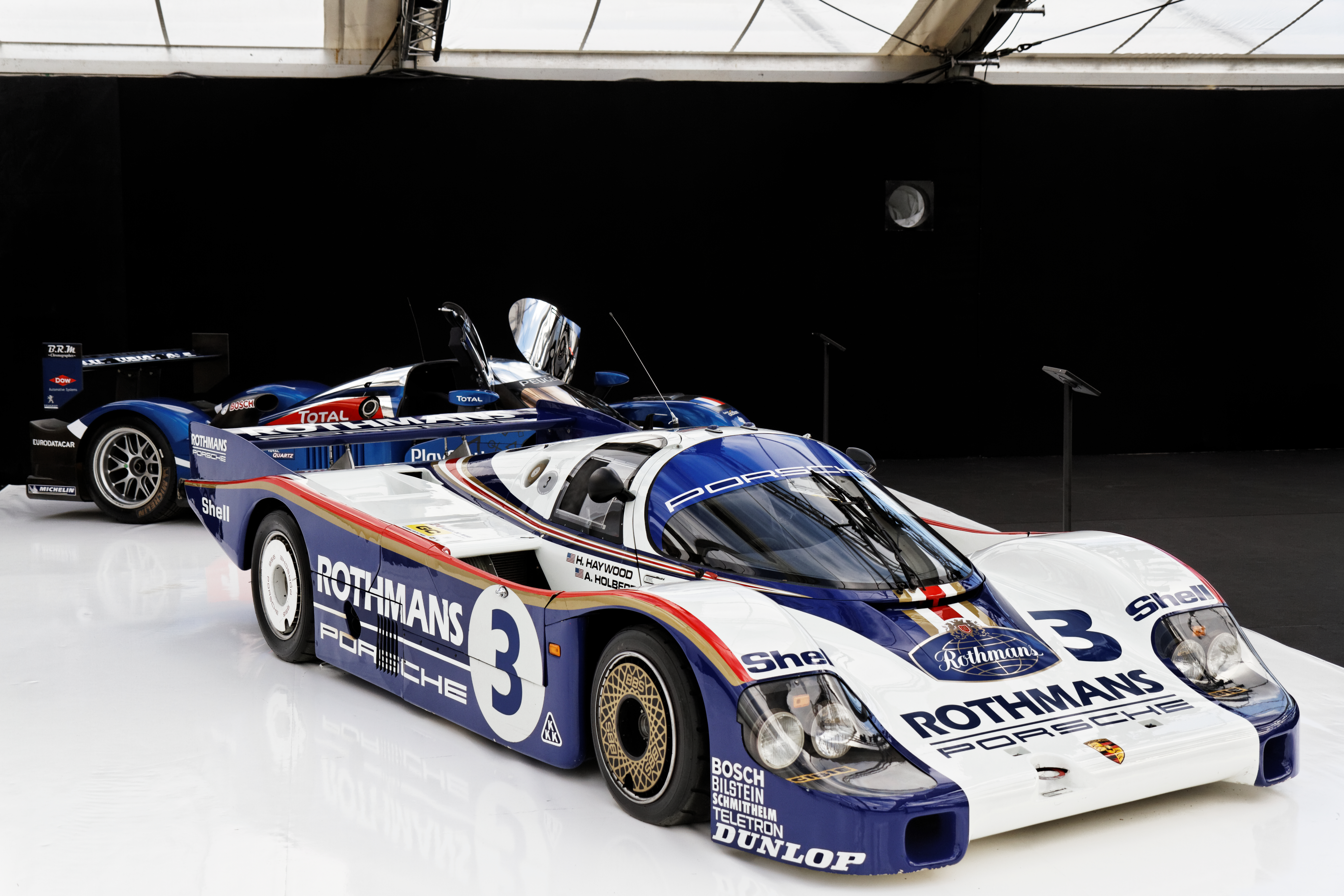 Une Porsche 956 Group C sports-prototype de 1982.